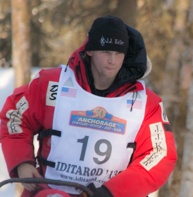 The Iditarod is something that makes me so proud to be an Alaskan - I never get tired of watching the dogs or wondering about life on the trail during the race - I wish I could have tried it. I took these photos at the Ceremonial Start - it is held the day before the race actually starts and is more of a party atmosphere to celebrate and honor the mushers and dogs. The race starts in downtown Anchorage and winds through the woods for a bit before the mushes pick up and head to Willow for the real start. I love to shoot out in the woods, away from the crowds. The mushers look so relaxed, the dogs look happy, and life is good. I took these photos on 2 March 2013 near Goose Lake, Anchorage, Alaska.